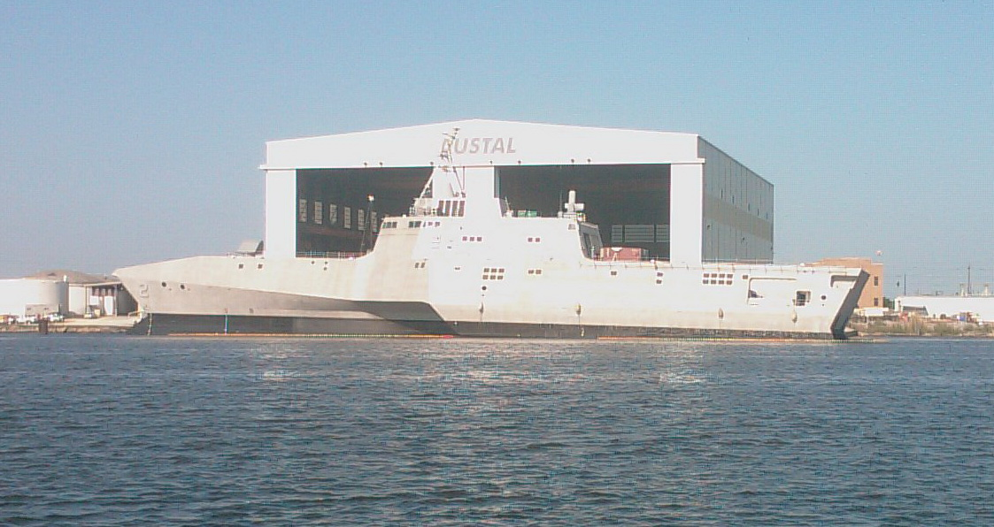 Photo made of USS Independence after launch Taken with AT&T Tilt on 3MB setting and edited (cropped only) with ACDSee.